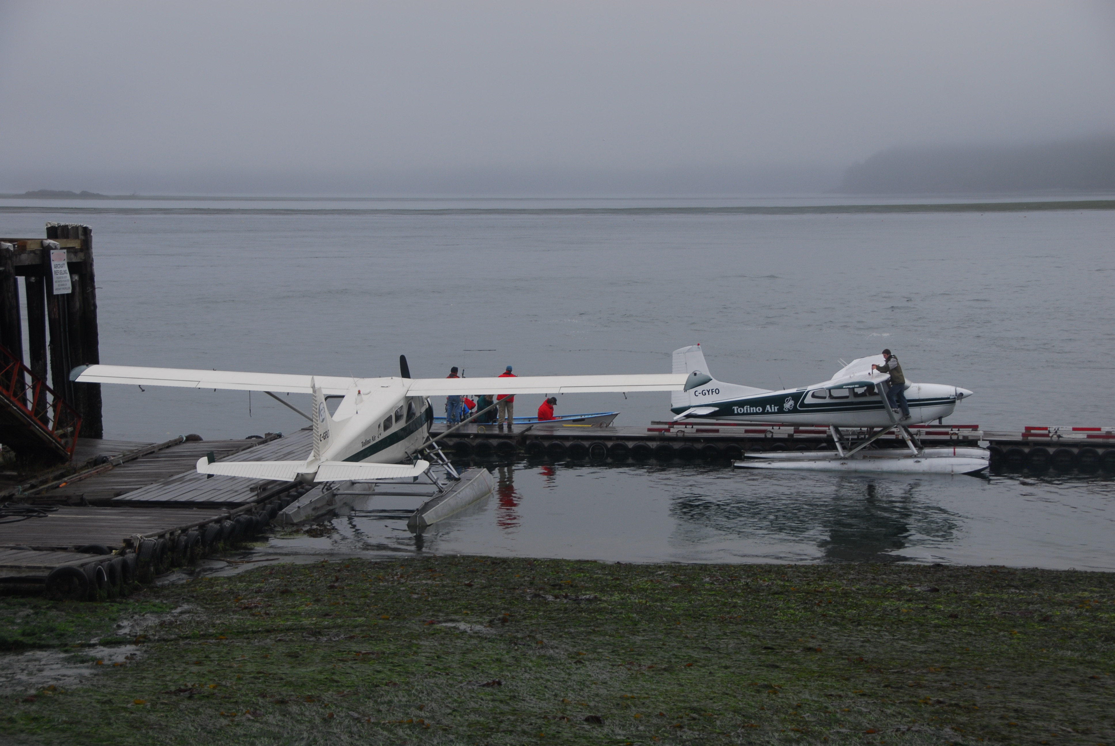 Tofino Air, including C-GYFO Cessna 180J and C-GFLD at Tofino Harbour Water Aerodrome